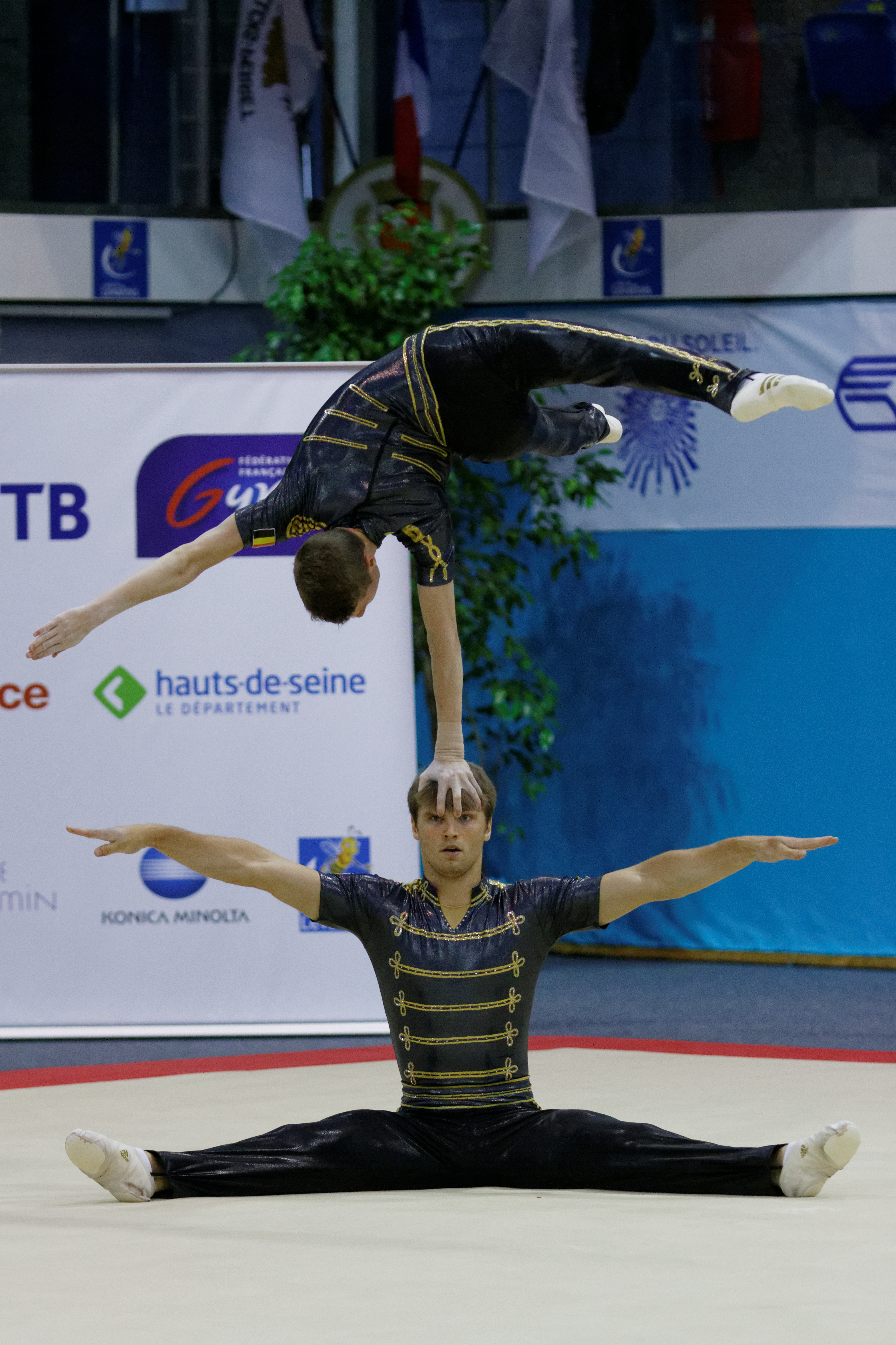 2014 Acrobatic Gymnastics World Championships, 10th-12 July, Levallois-Perret, France. Qualifications: men's pair. Belgium.